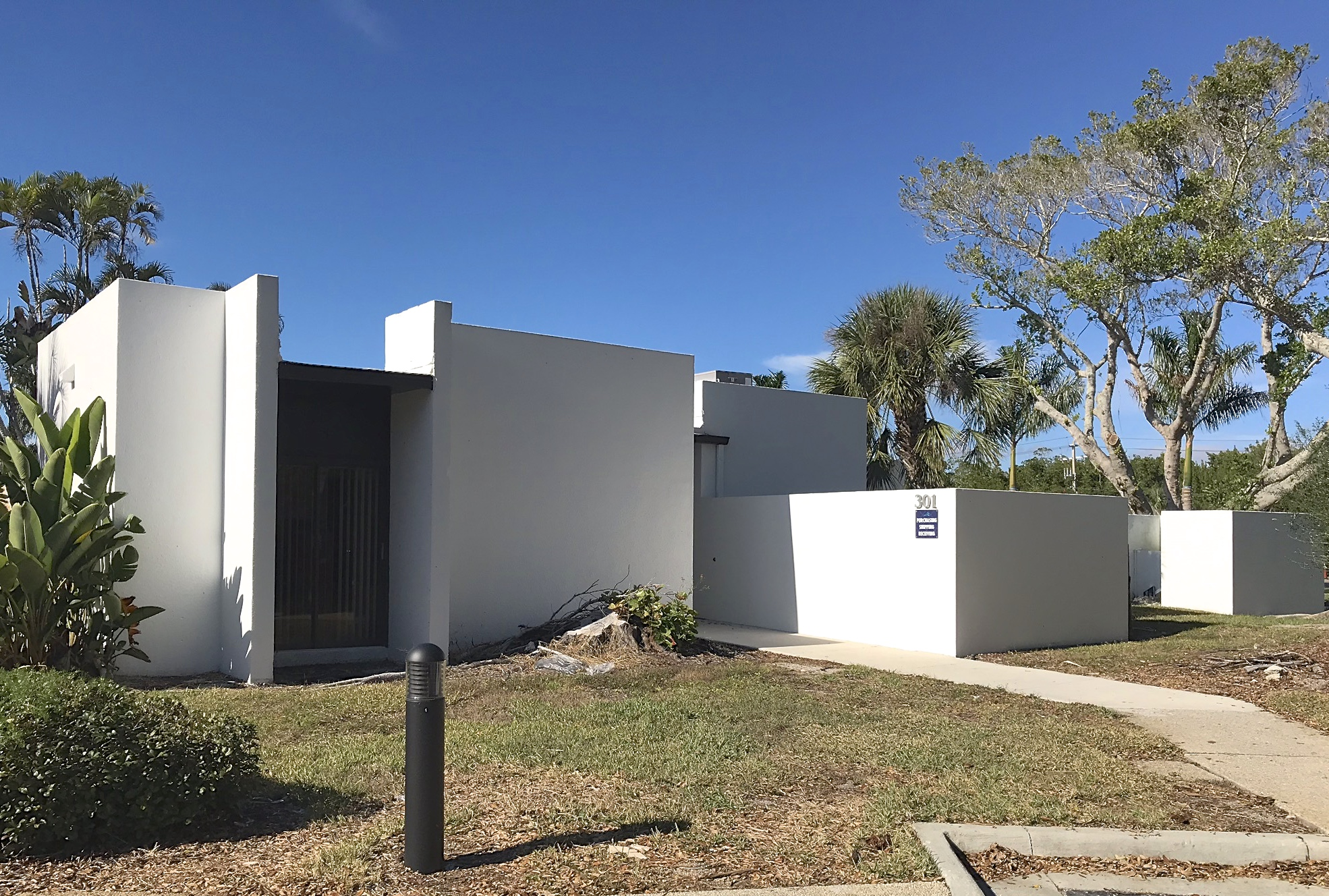 Arvida Sales Office 2 (Tim Seibert, Architect, FAIA)